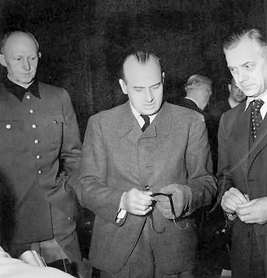 Generaloberst Alfred Jodl (left), Hans Frank (center), and Alfred Rosenberg (right) at the Nuremberg War Crimes Trials.